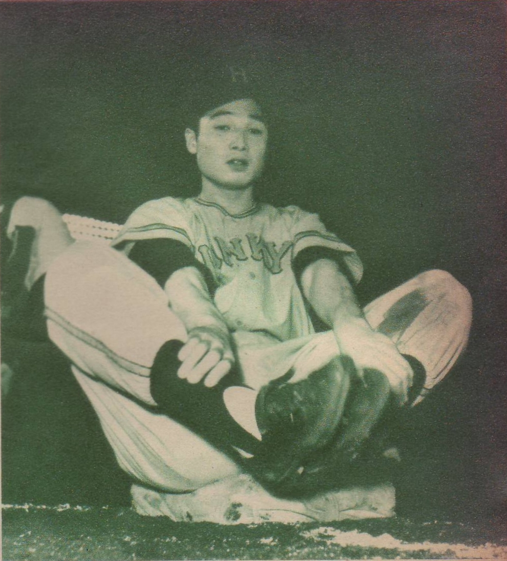 Akiteru Kono (Hankyu Braves. taken in 1956).